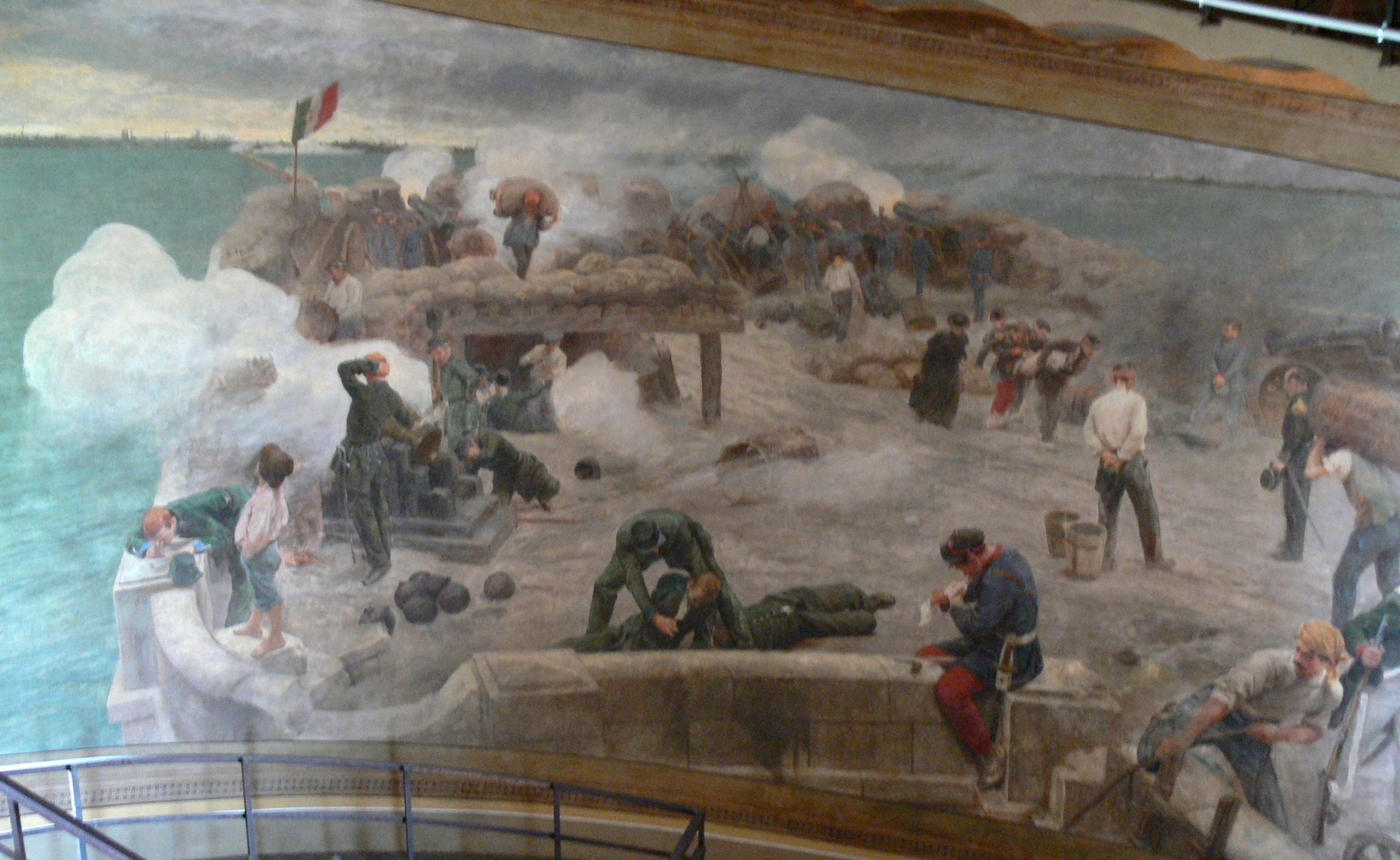 San Martino della Battaglia ( Italy ). Tower ( 1880 ) - Fresco showing the battle at the fort of San Antonio ( 1849 ) in the middle of the railway bridge crossing the laguna of Venice, by Bressanin.